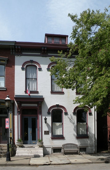 Picture of Gertrude Stein's birthplace and childhood home located at 850 Beech Avenue in the Allegheny West neighborhood of Pittsburgh, Pennsylvania, on May 1, 2010. The historical marker on the front of the house says the following: "Allegheny West. Birthplace of Gertrude Stein. In this house on February 3, 1874, Gertrude Stein was born to Daniel and Amelia Stein. Author, poet, feminist, playwright, and catalyst in the development of modern art and literature. 'In the United States there is more space where nobody is than where anybody is. This is what makes America what it is.' Allegheny West Historic District."[1]